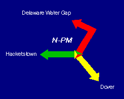 Netcong-Port Morris Site Committee logo created in 1996.Wally From Columbia (NJ) (talk) 18:34, 6 October 2010 (UTC)